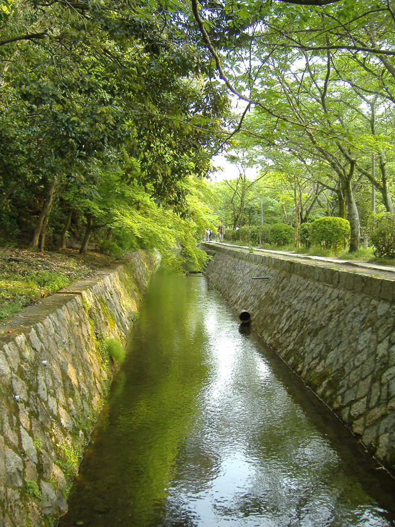 Lake Biwa Canal which flows along the Philosopher's Walk, Kyoto, Japan.